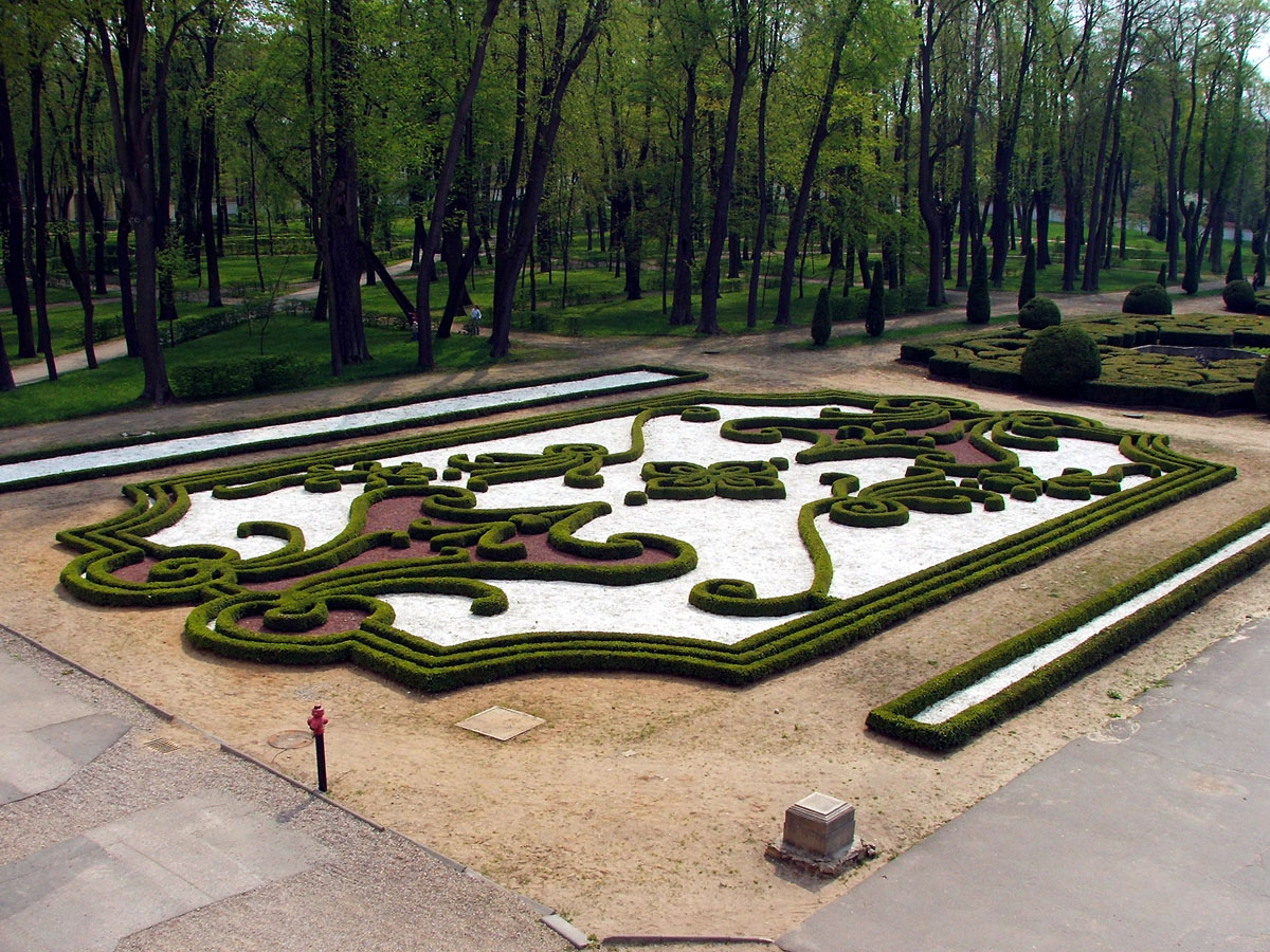 Parterre garden of the Branicki Palace in Białystok, Poland.